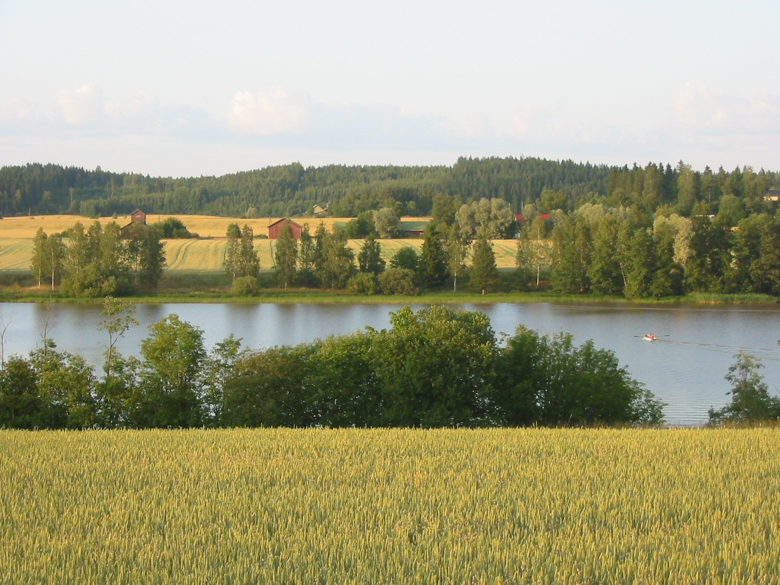 Lake Hirsjärvi in Somero, Finland